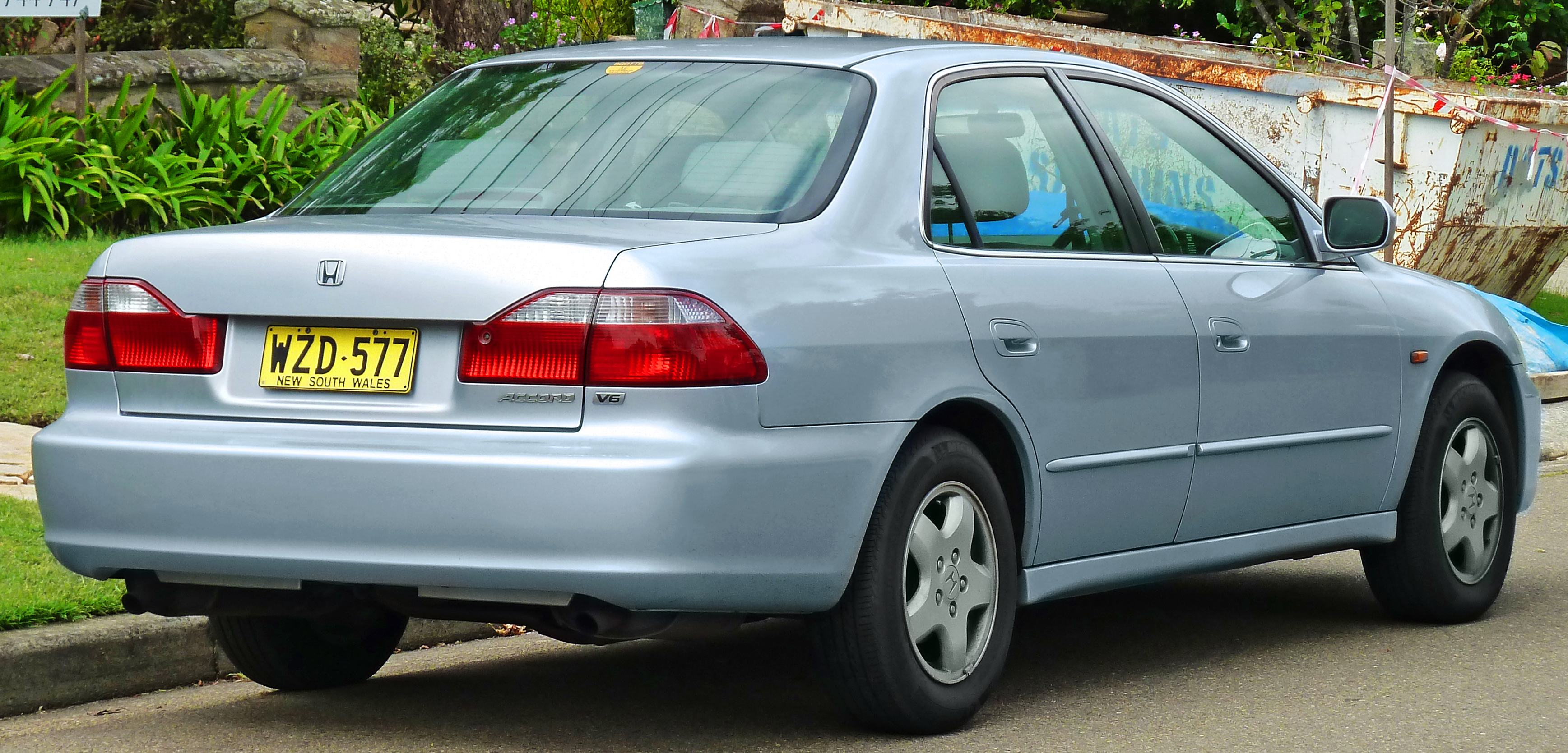 2000 Honda Accord V6 sedan. Photographed in Killara, New South Wales, Australia.